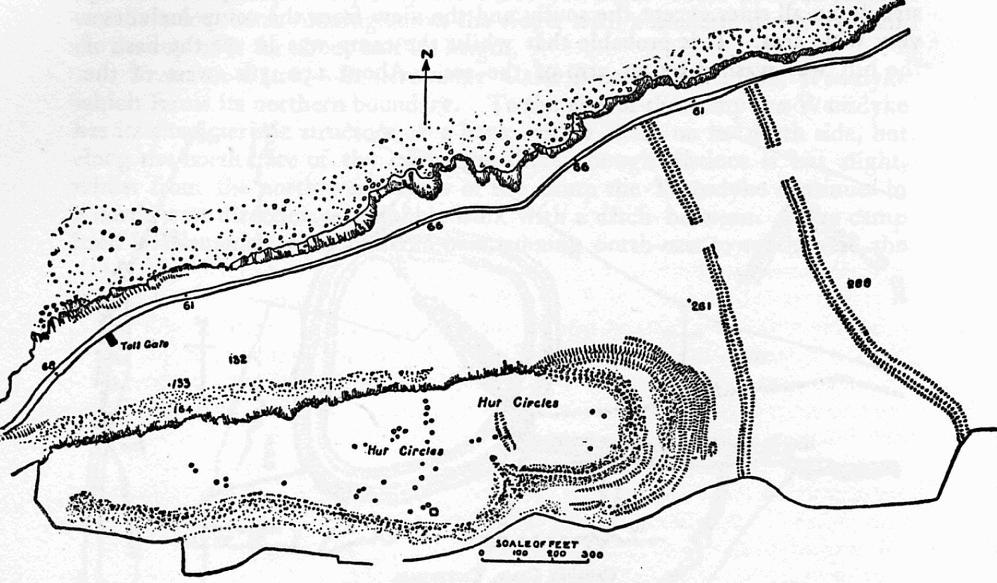 Map of earthworks at Worlebury Camp, Weston-super-Mare, Somerset, England.